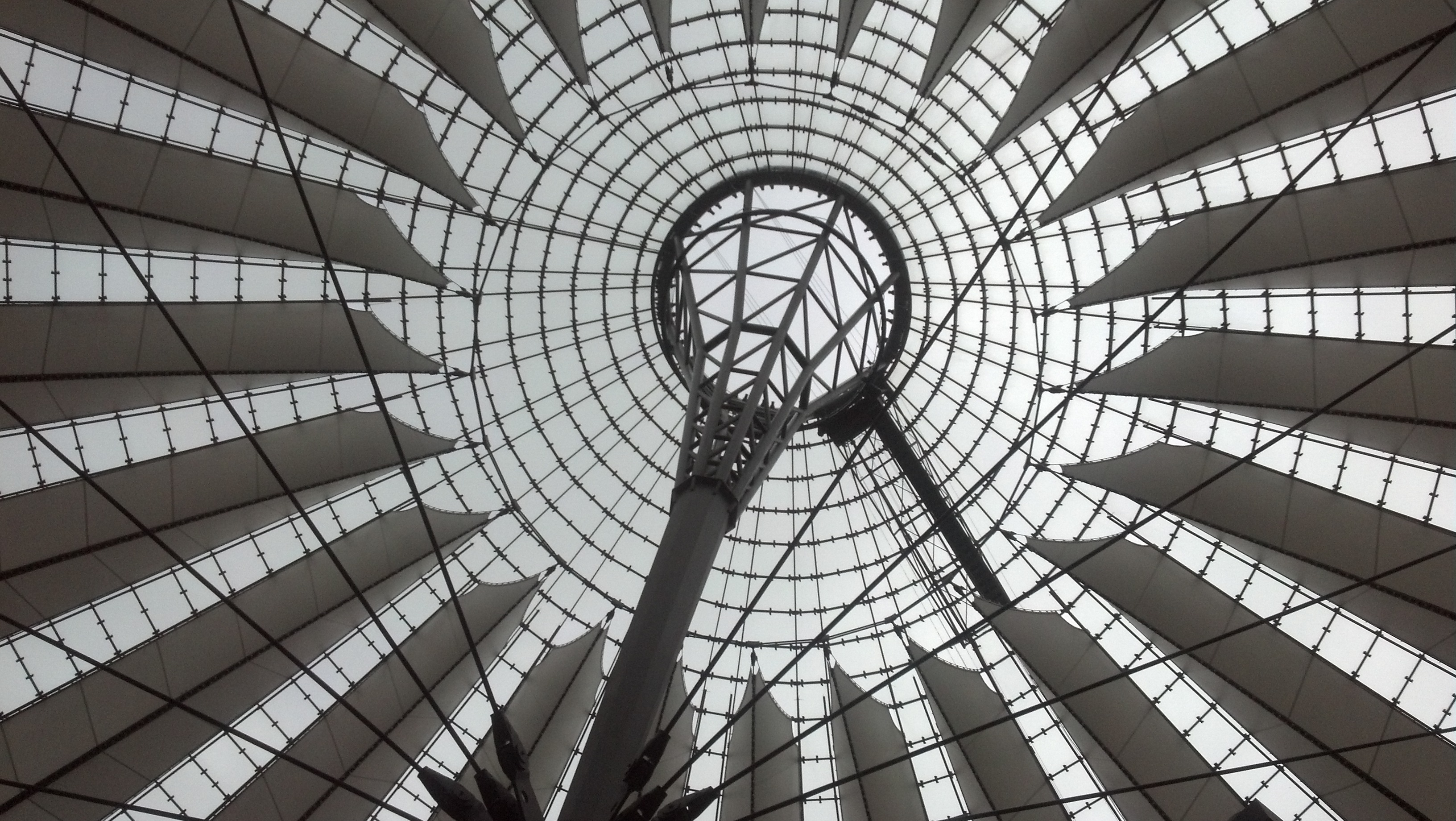 The ceiling of Sony Center in Berlin (made of glass)